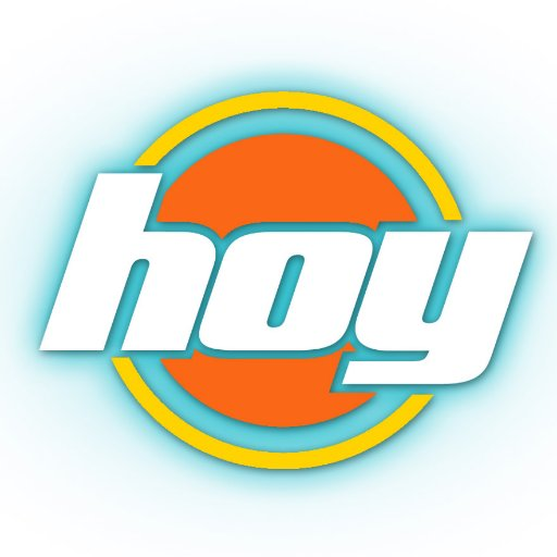 tv show